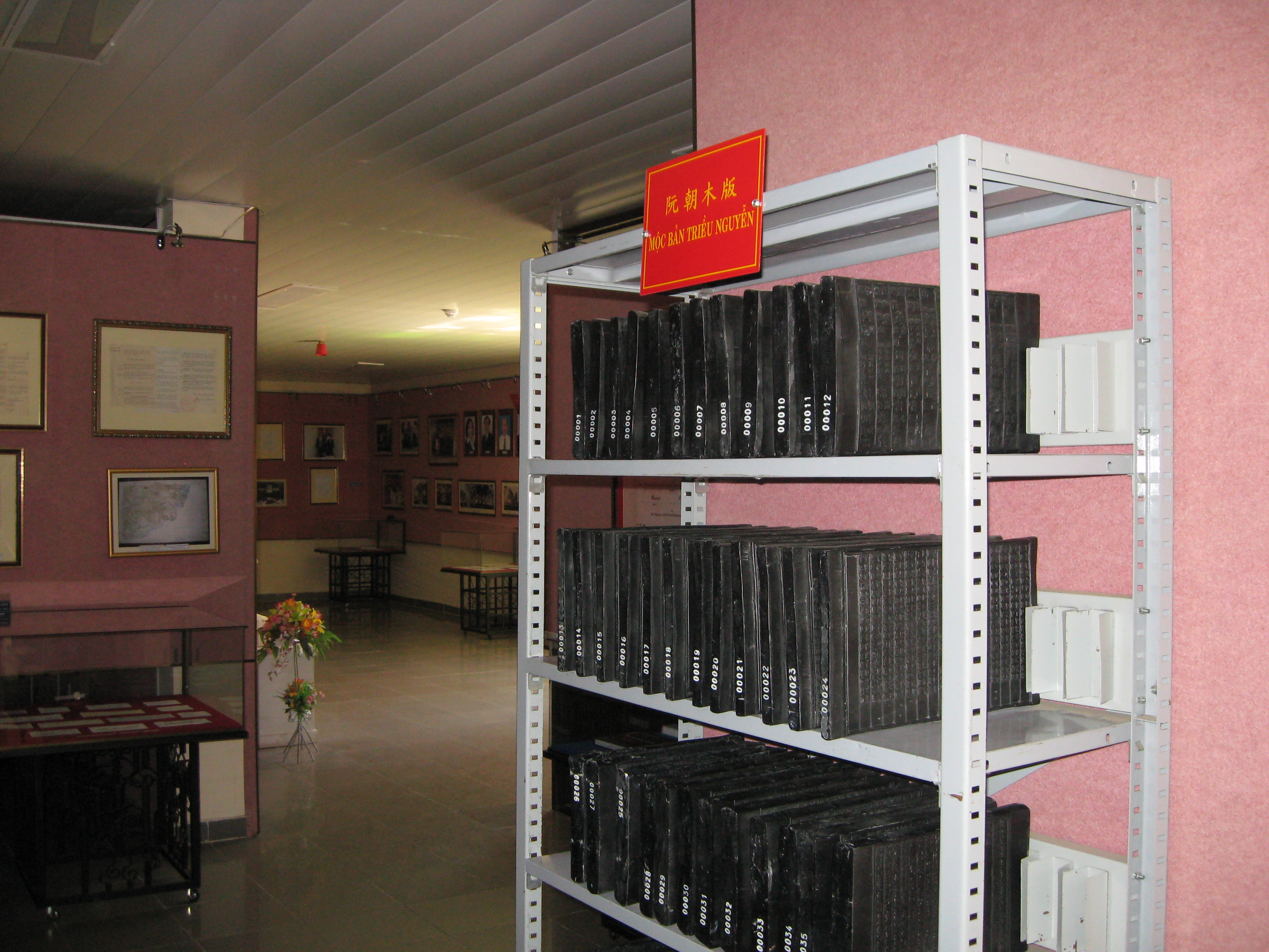 Woodblocks of the Nguyễn Dynasty at the Centre of National Archive IV, Tran Le Xuan Palast in Da Lat